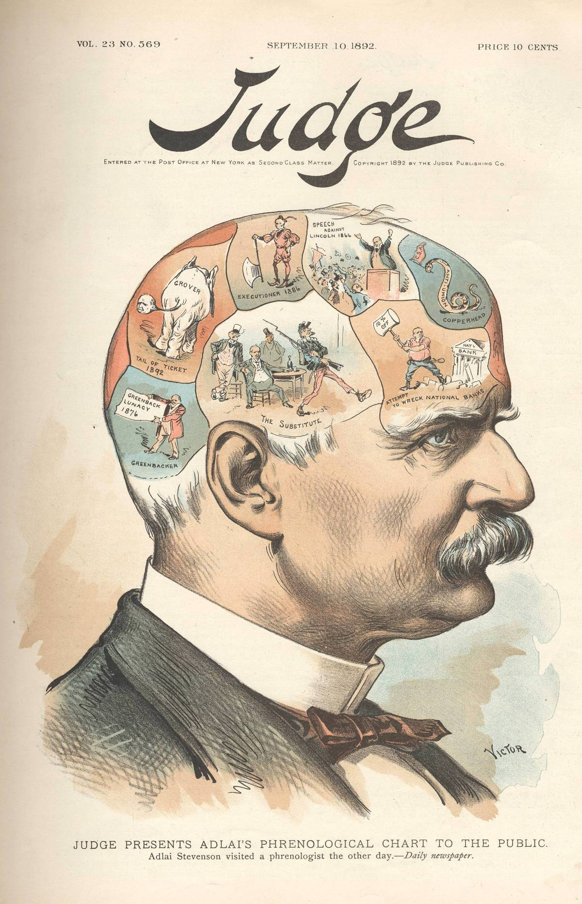 Judge Magazine Cover (10 Sep 1892)